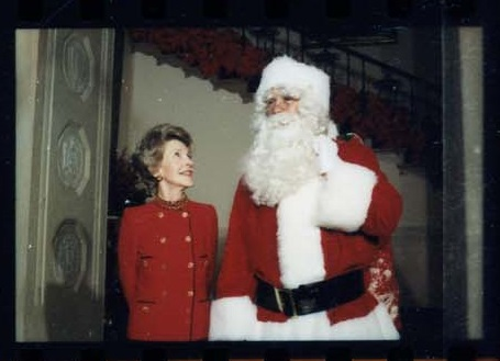 Nancy Reagan and John Riggins as Santa Claus unveil Christmas decorations at the Cross Hall of the White House in 1984, photo 15 on roll